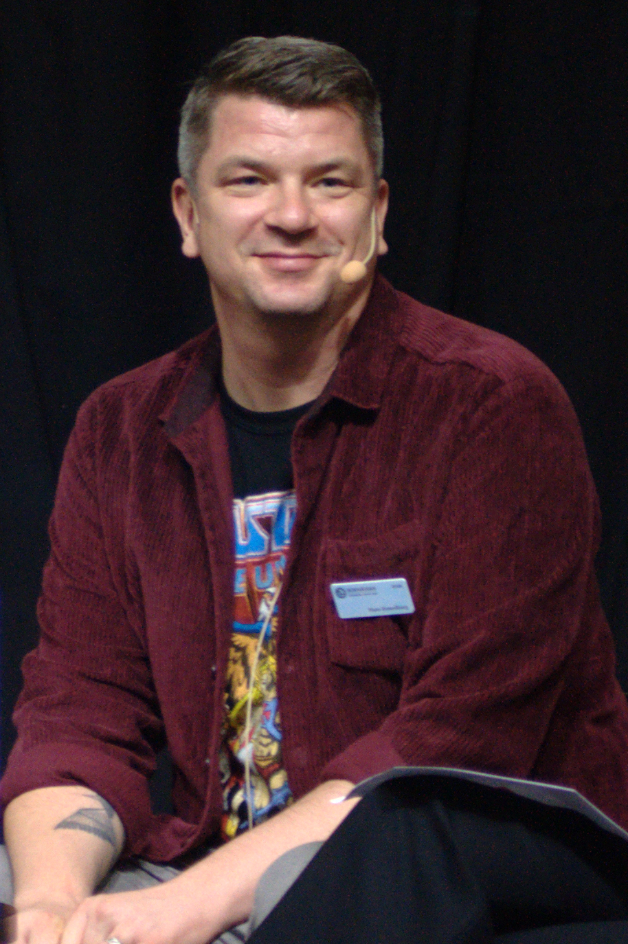 Swedish author Mats Strandberg during Göteborg Book Fair 2019.